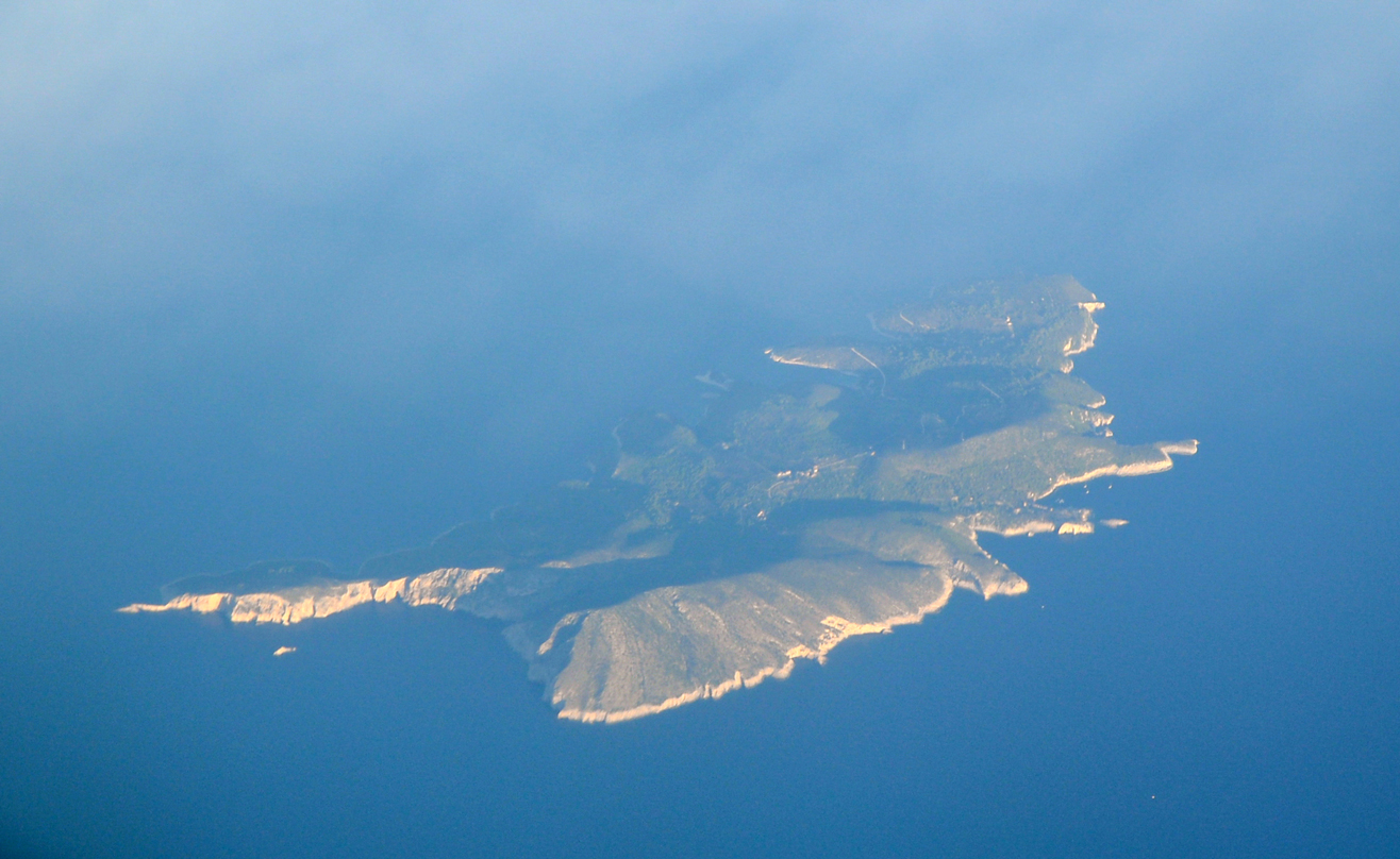 Biševo island seen from the airplane. Located in the Adriatic Sea close to the Island of Vis, not far from the city of Split, Croatia.